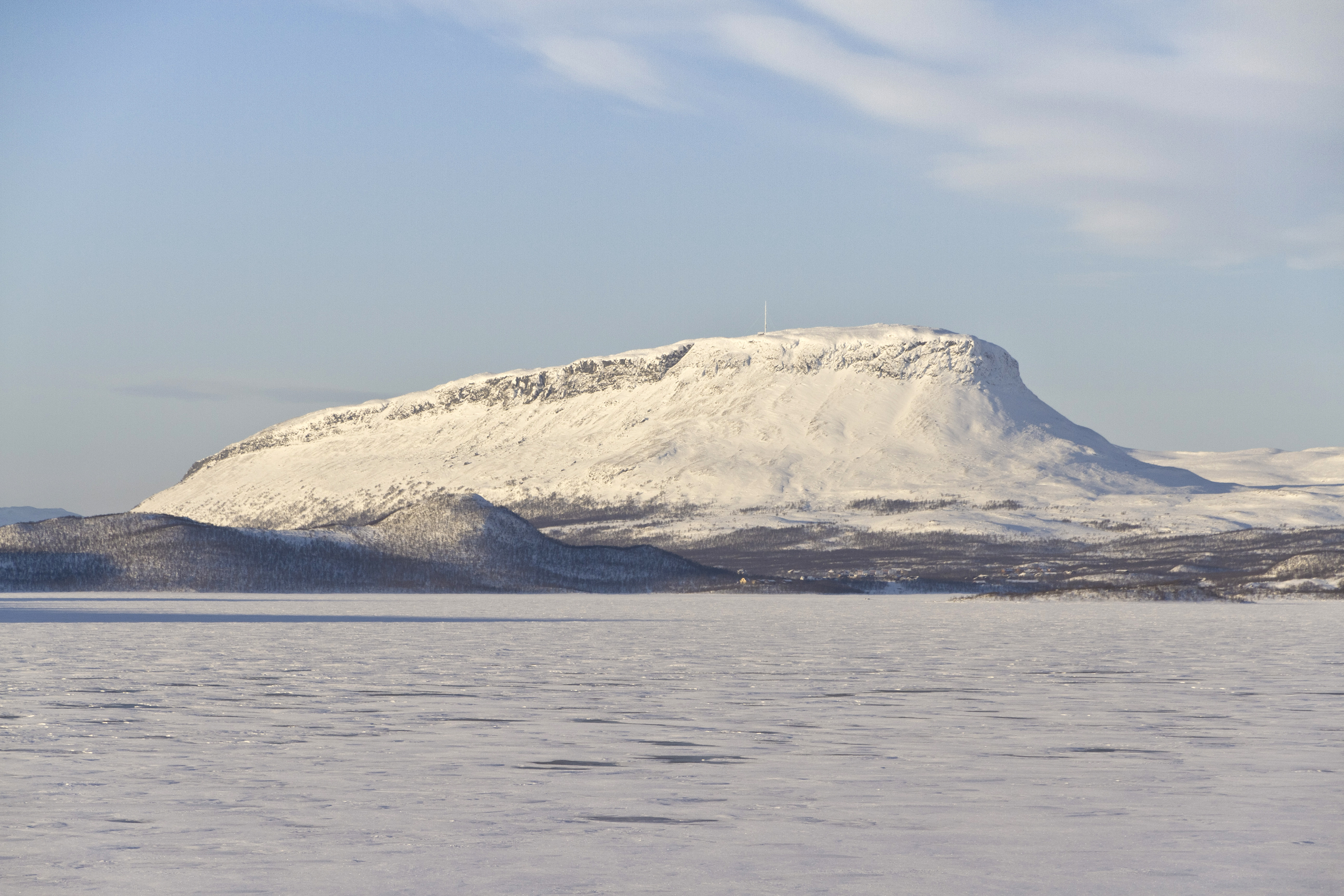 Saana fell (one of the highest fells in Finland) near Kilpisjärvi as seen from the south over Ala-Kilpisjärvi lake in 2012 March.